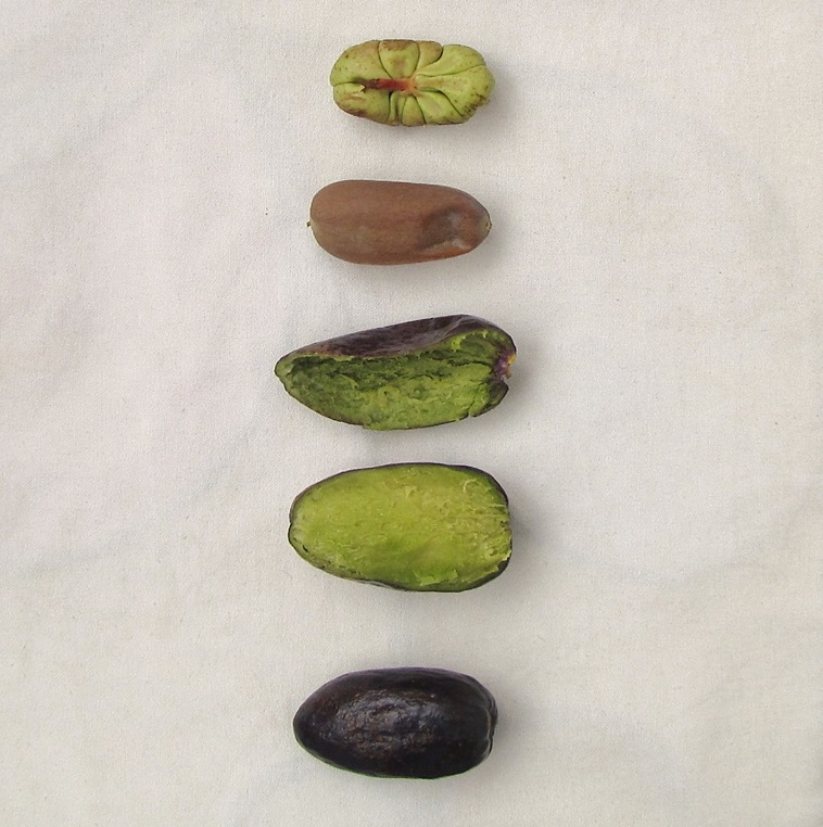 Nsafu - safoutier - butterfruit - African pear/plum. After softening in hot water, the edible dark bluish-purple skin and green pulp easily slip off the center kernel. Can also be grilled gently over heat for a few minutes After this short preparation, skin and green pulp/flesh are eaten warm, often described as soft as butter, slightly tangy, the smoothness, taste, color and texture are similar to avocado. Also commonly added whole to popular sauces, but at the end of cooking to soften when the sauces are taken off the heat. Servings are usually not more than one or two per meal as this fruit has a reputation for causing drowsiness. Whole fresh fruit shown measured at 7 cm in length, warmed and softened sample showing green pulp measured approximately 8 cm before swelling slightly in water